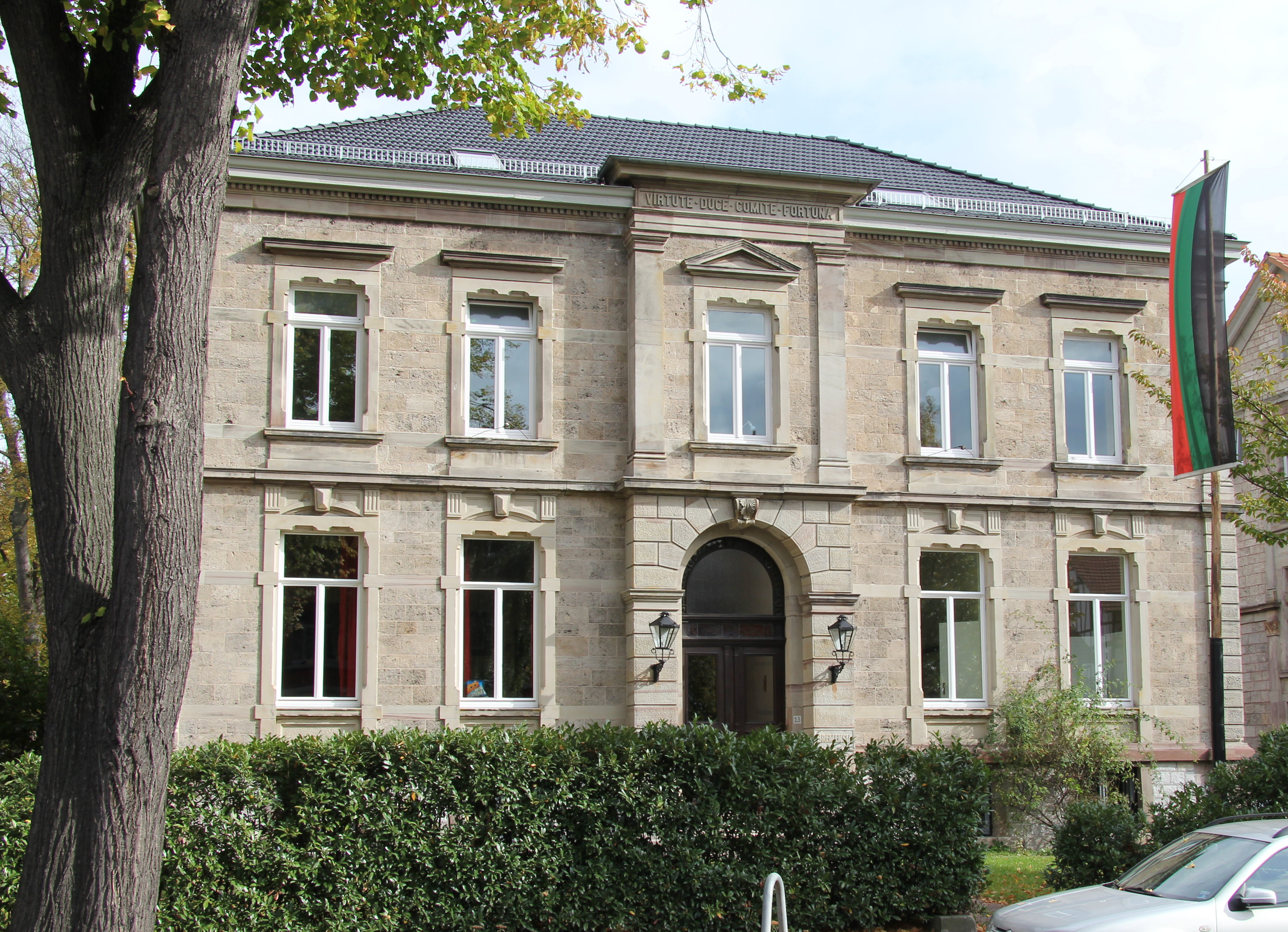 House of student fraternity Corps Bremensia Göttingen, Reinhäuser Landstrasse 23, Göttingen/Lower Saxony (Germany)